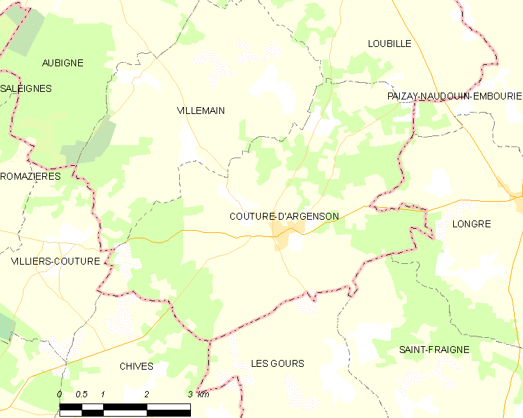 Map of French municipality Couture-d'Argenson